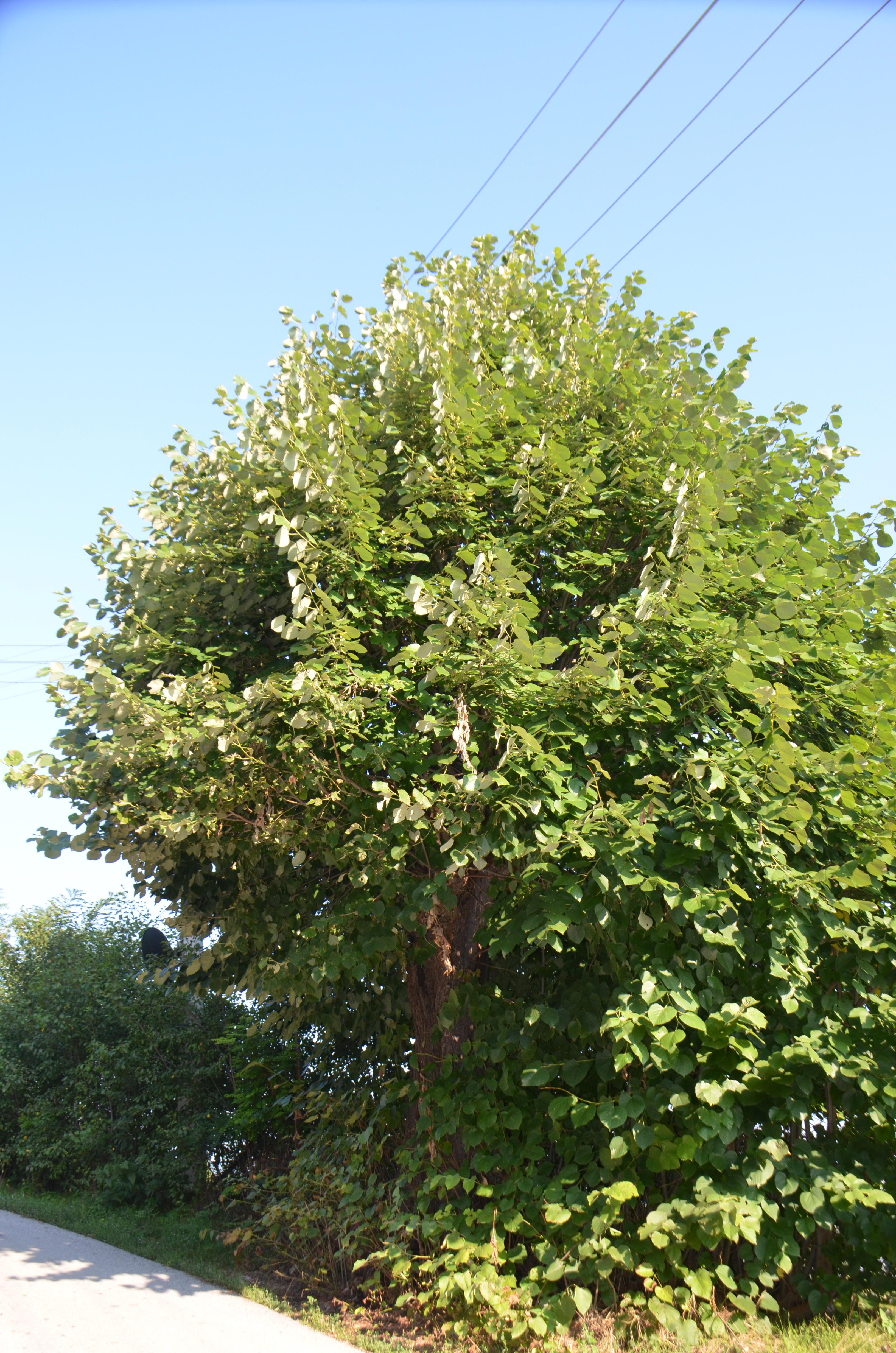 Zapis - Sacred Tree, Linden in village Beljina, municipality Čačak, Serbia Српски (ћирилица): Запис - Јовановића липа, село Бељина, Општина Чачак, Моравички округ, Србија